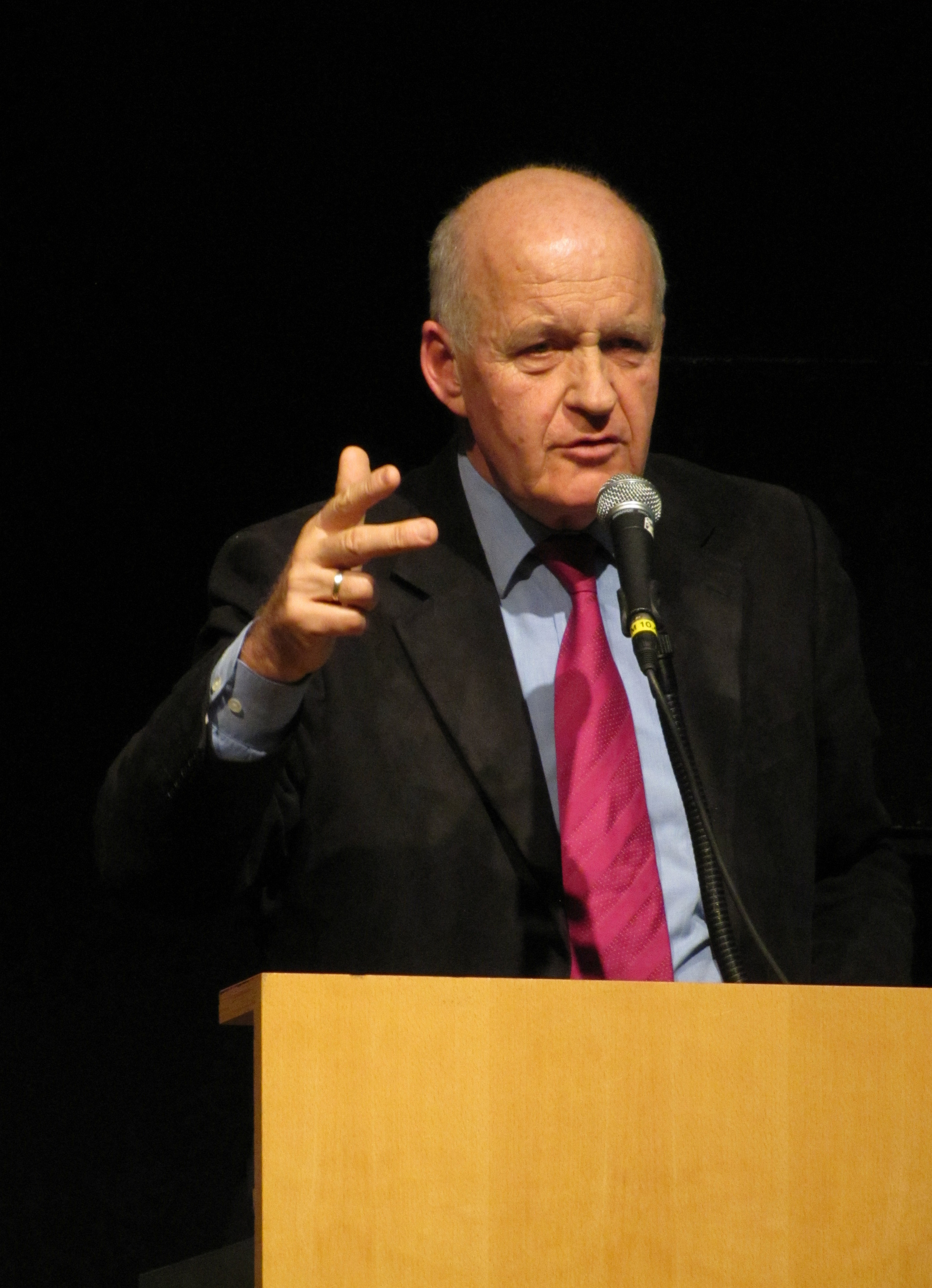 Goetz Werner, head of Cross-Department Group for Entrepreneurial Studies at the Karlsruhe Institute of Technology, at "Centralstation" in Darmstadt, Hesse, Germany.